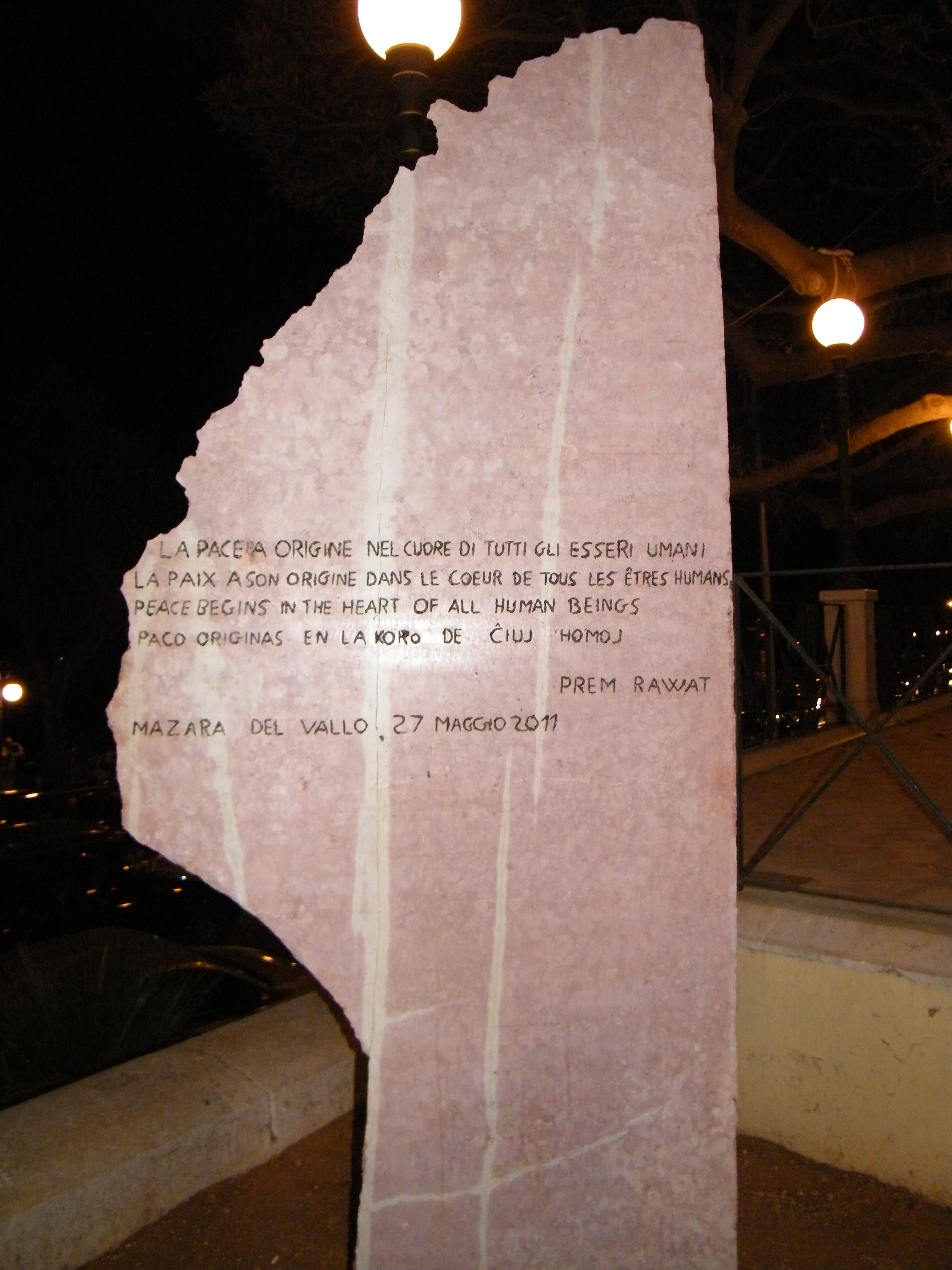 Celebrative monolith put in occasion of Prem Rawat's visit to the city